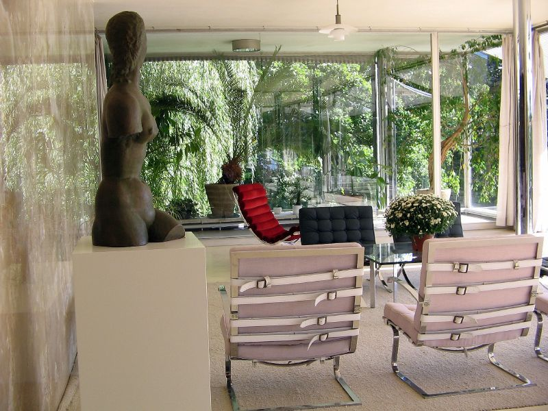 Furniture by Mies van der Rohe in the Tugendhat Villa, including two Tugendhat chairs in the foreground